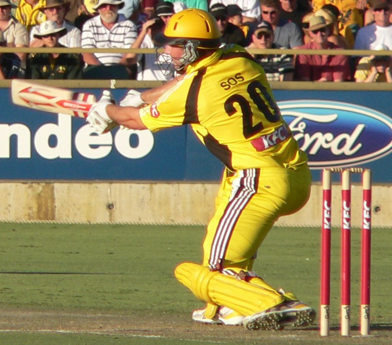 Shaun Marsh at the WACA Ground during the 2007-08 KFC Twenty20 Big Bash final.